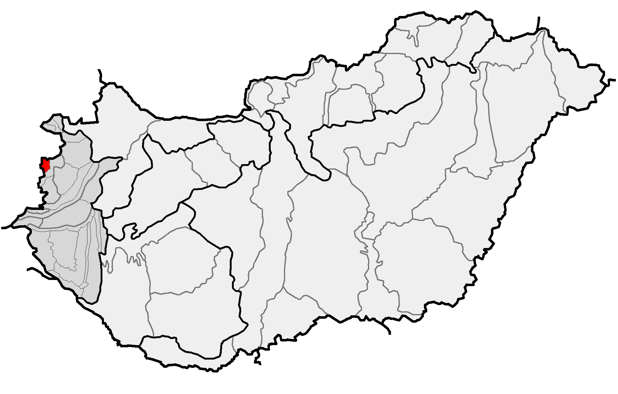 Location of geographical microregion of Kőszegi-hegység (red) and macroregion of Nyugat-magyarországi peremvidék (gray) within subdivisions of Hungary.